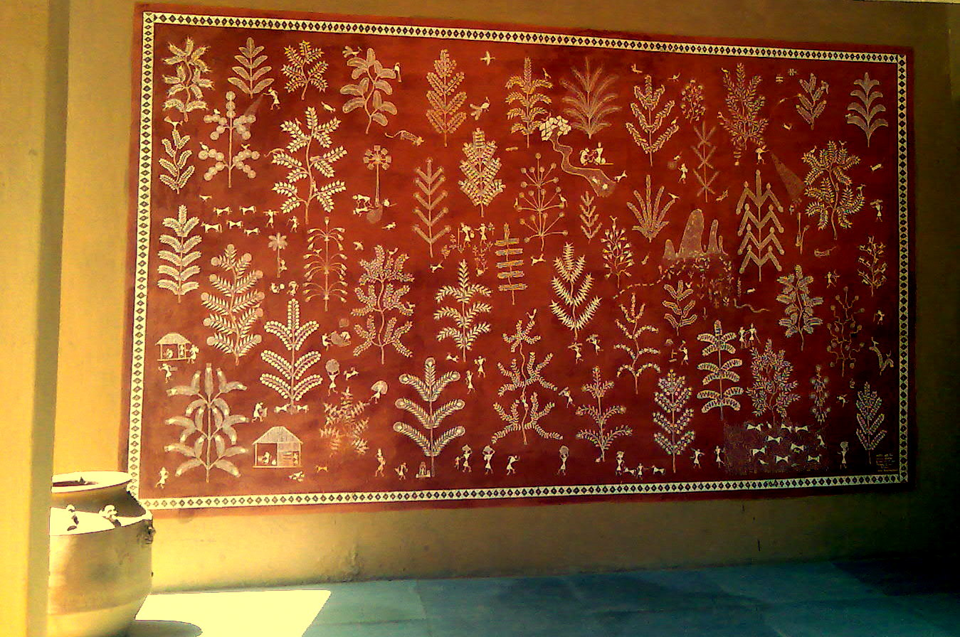 Painted prayers, Warli Painting, at Sanskriti Kendra Museum, Anandagram, New Delhi.jpg